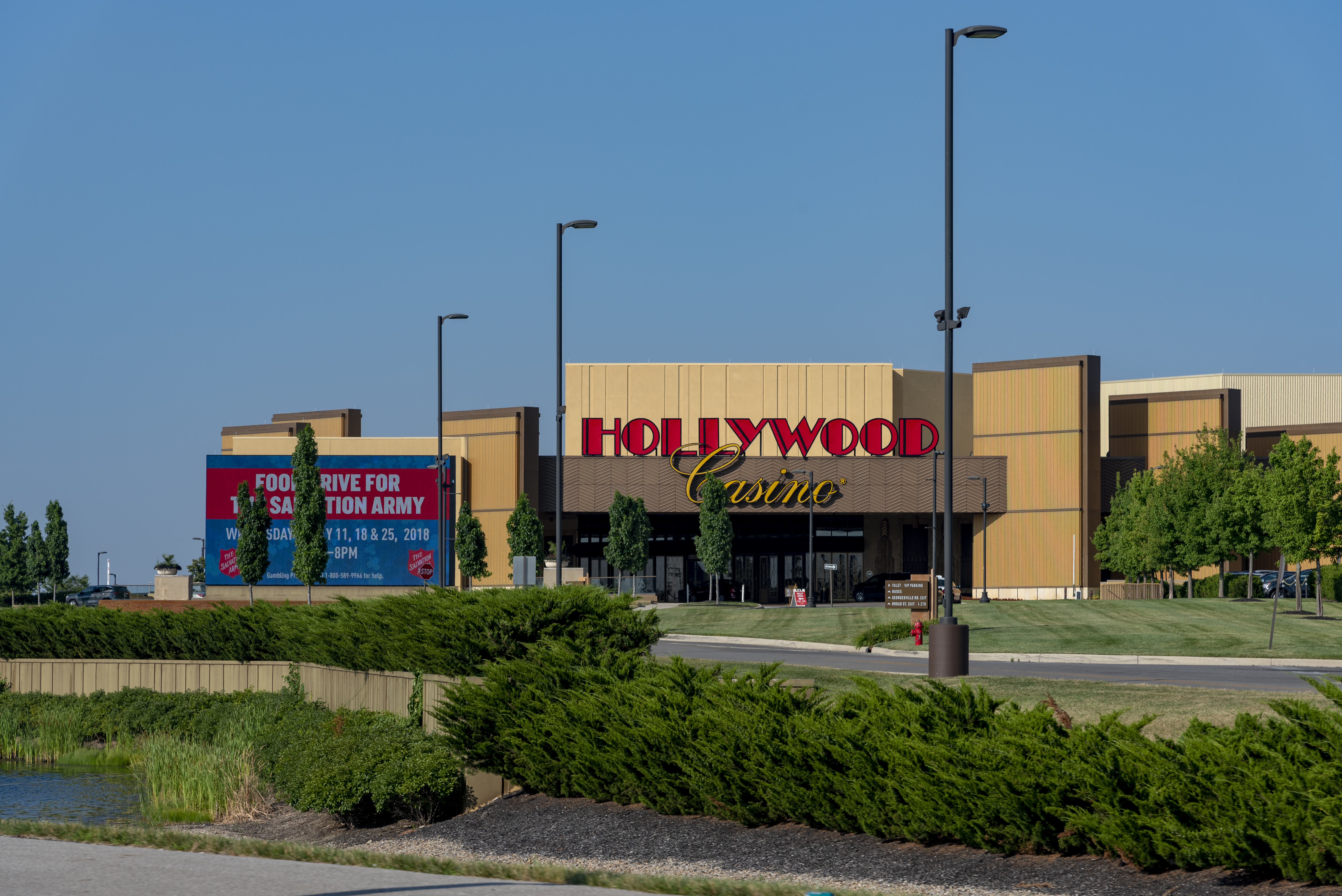 Front entrance to Hollywood Casino Columbus from Georgesville Road. Photo taken in July, and viewed from the southwest.